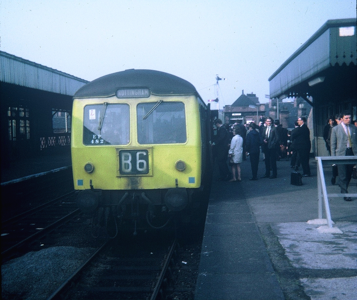 A diesel multiple unit train waiting to leave Nottingham (Arkwright Street) Station for Rugby (Central) Station on the final day, ie Saturday 3rd May, 1969, of passenger working on this truncated section of the Great Central Railway line. Housing development now occupies the site and its postcode is NG2 2JR.